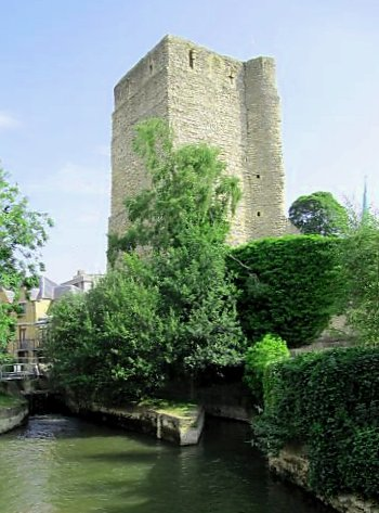 View up Castle Mill Stream to St George's Tower of Oxford Castle, England